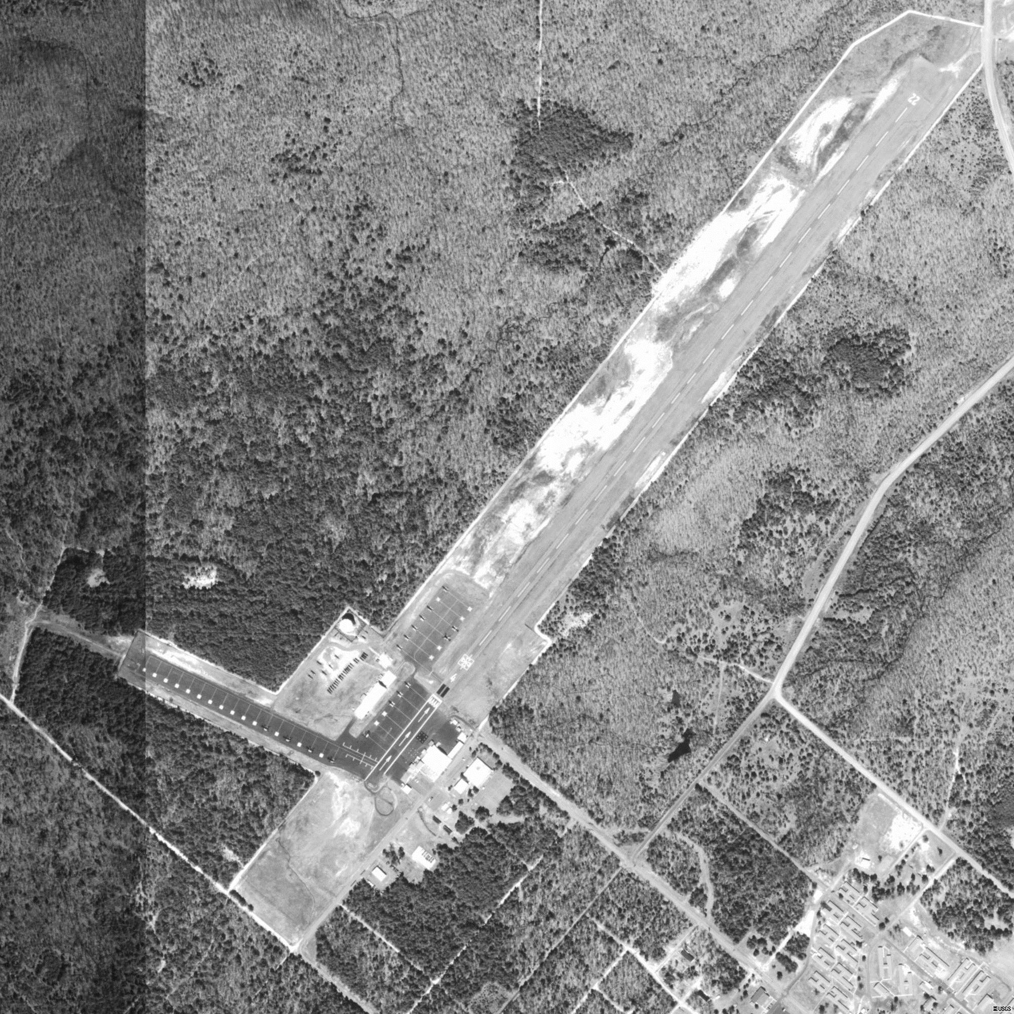 USGS digital orthophoto of Robinson Army Airfield (FAA: RBM) at Camp Robinson, near Little Rock, Arkansas, United States.